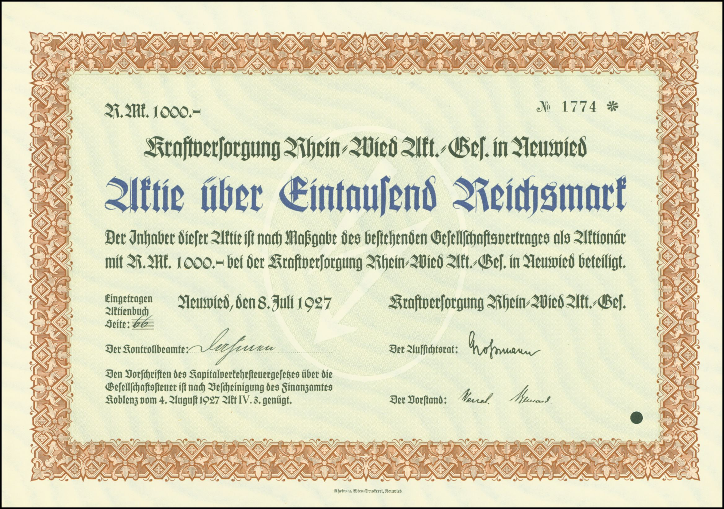 Share of the Kraftversorgung Rhein-Wied AG, issued 8. July 1927